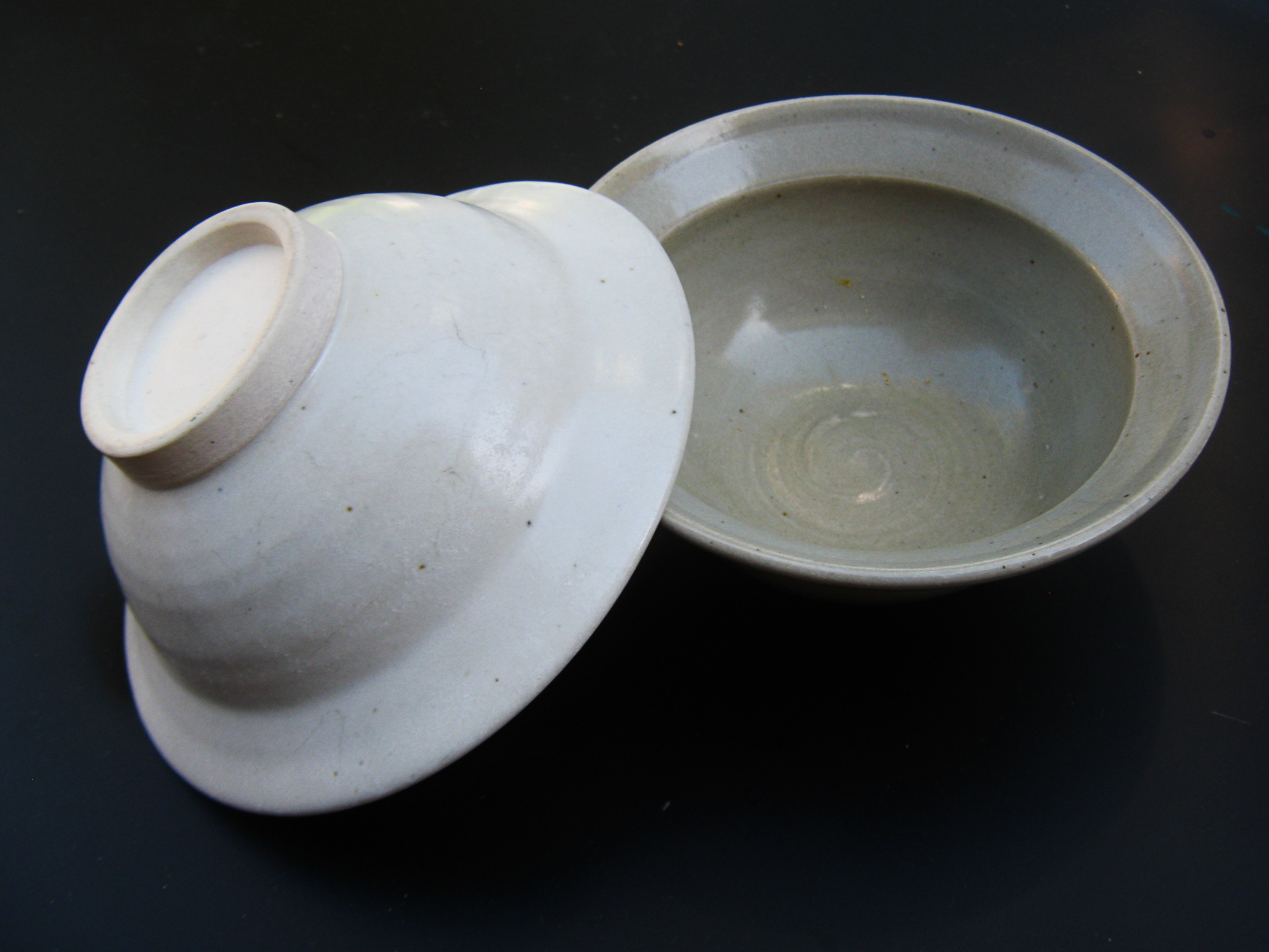 White porcelain bowls by Ian Sprague 1960s; photographed in a private collection at Elwood Victoria